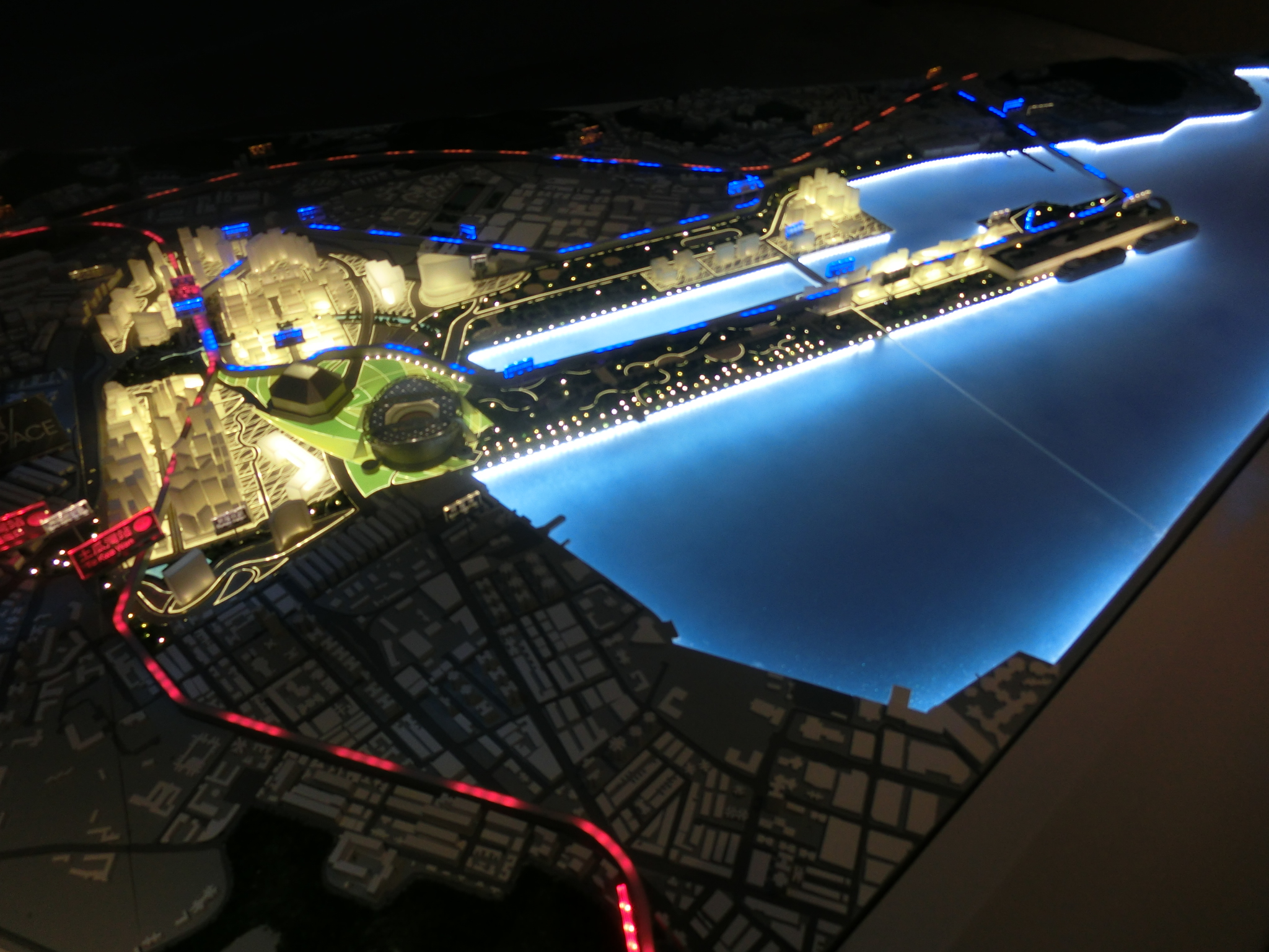 九龍西zh:九龍城zh:賈炳達道33號，恒基發展的zh:單幢樓zh:住宅 - 曉薈 Showflat of High Place, Kowloon City, Hong Kong